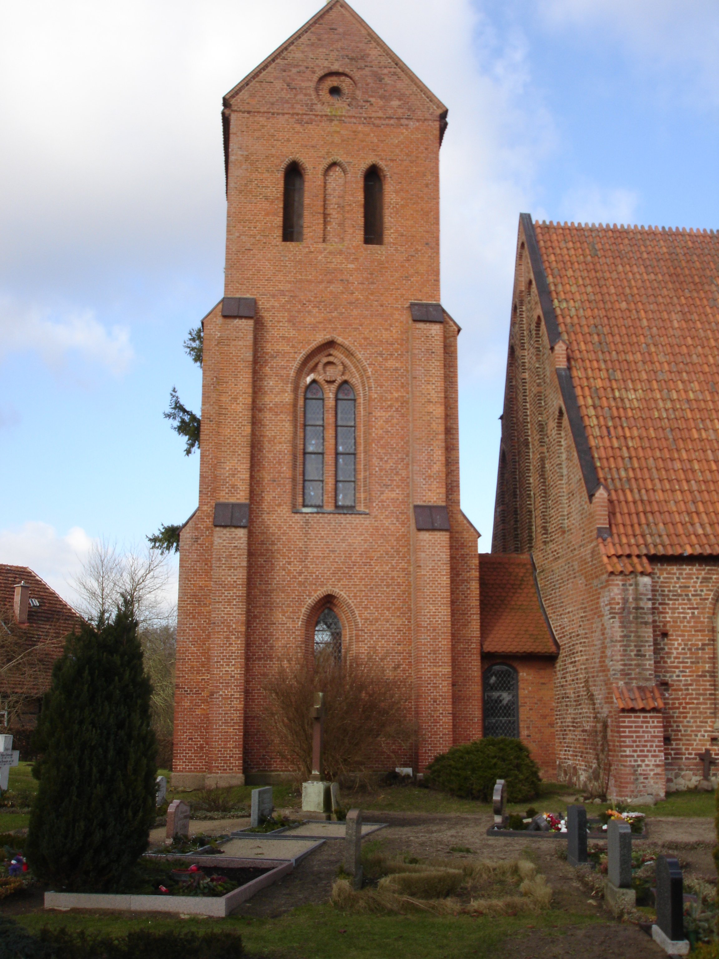 Church in Cramon, district Nordwestmecklenburg, Mecklenburg-Vorpommern, Germany